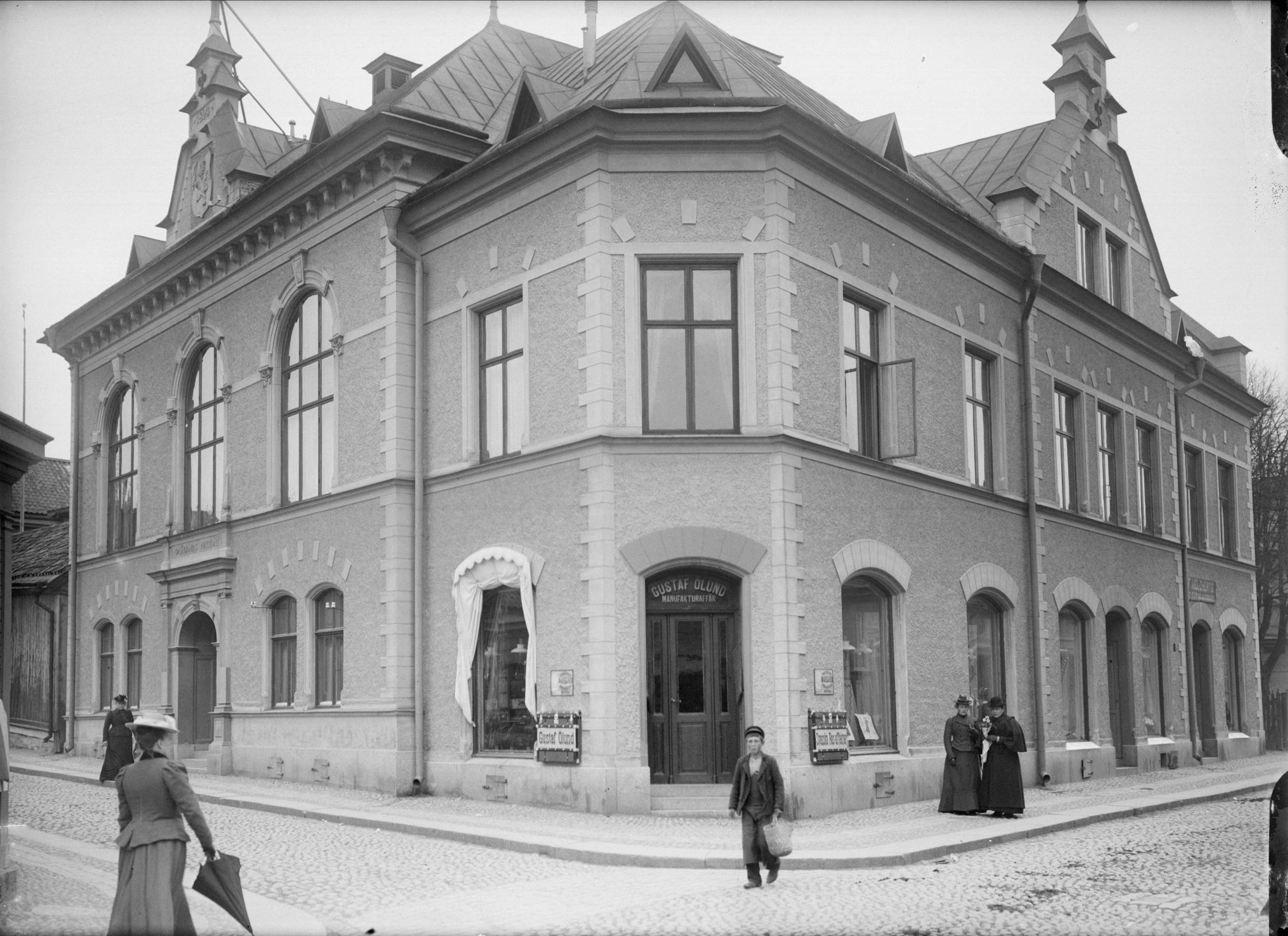 Smålands nations second house, Uppsala. 1893-1955. Photo 1901-1902.